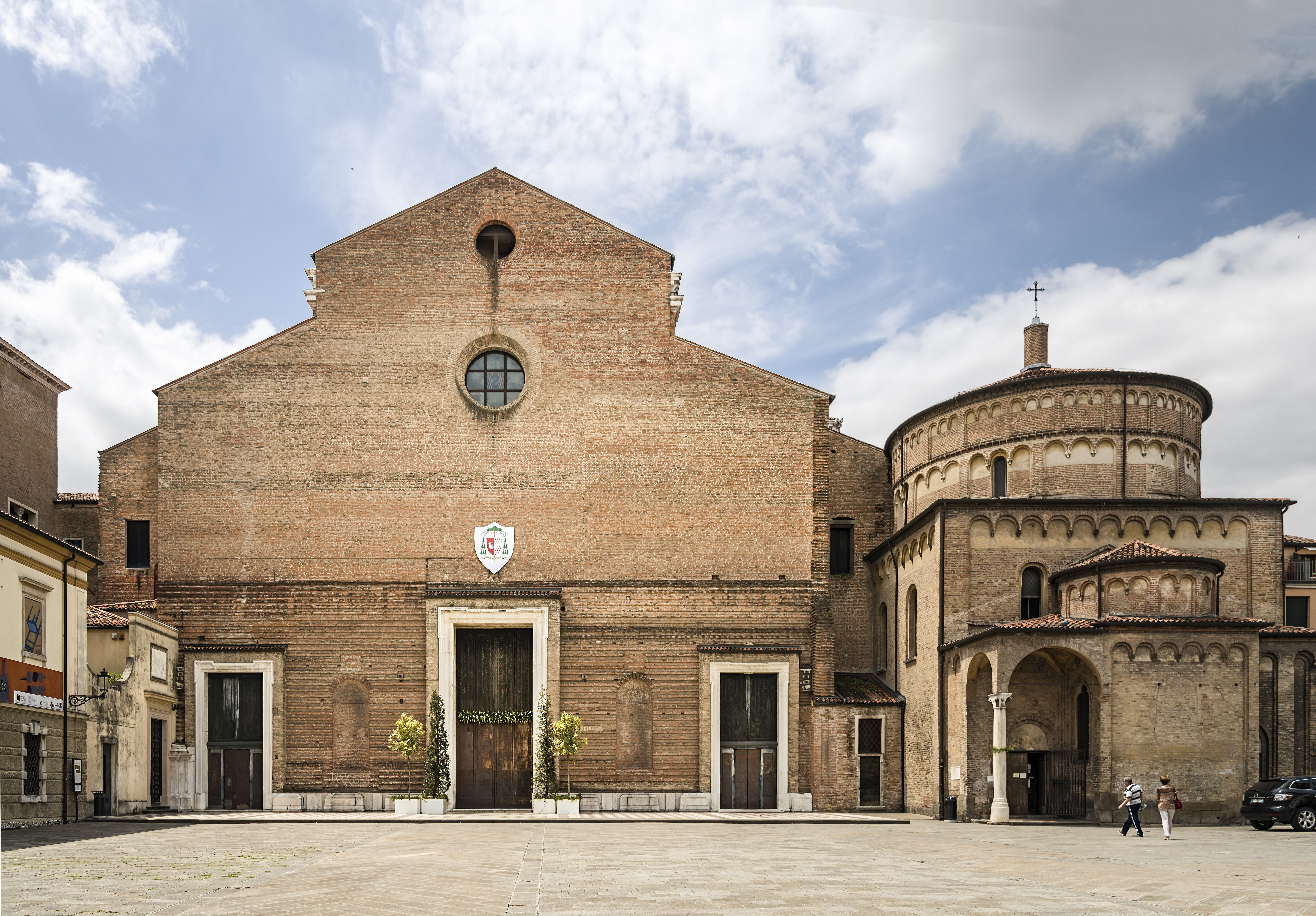 Padua Cathedral - Facade and baptistery.